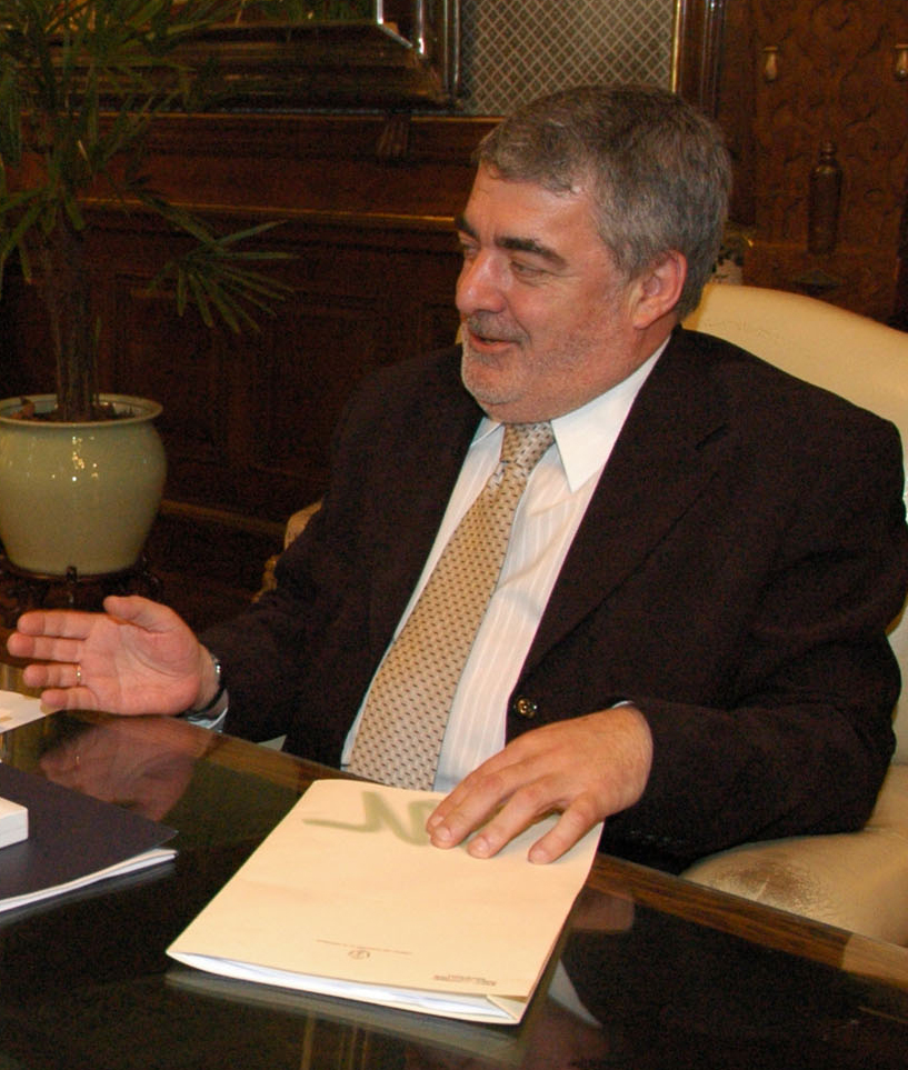 Mario Das Neves, Chubut Province Governor in Casa Rosada. September 25, 2006. Buenos Aires, Argentina.